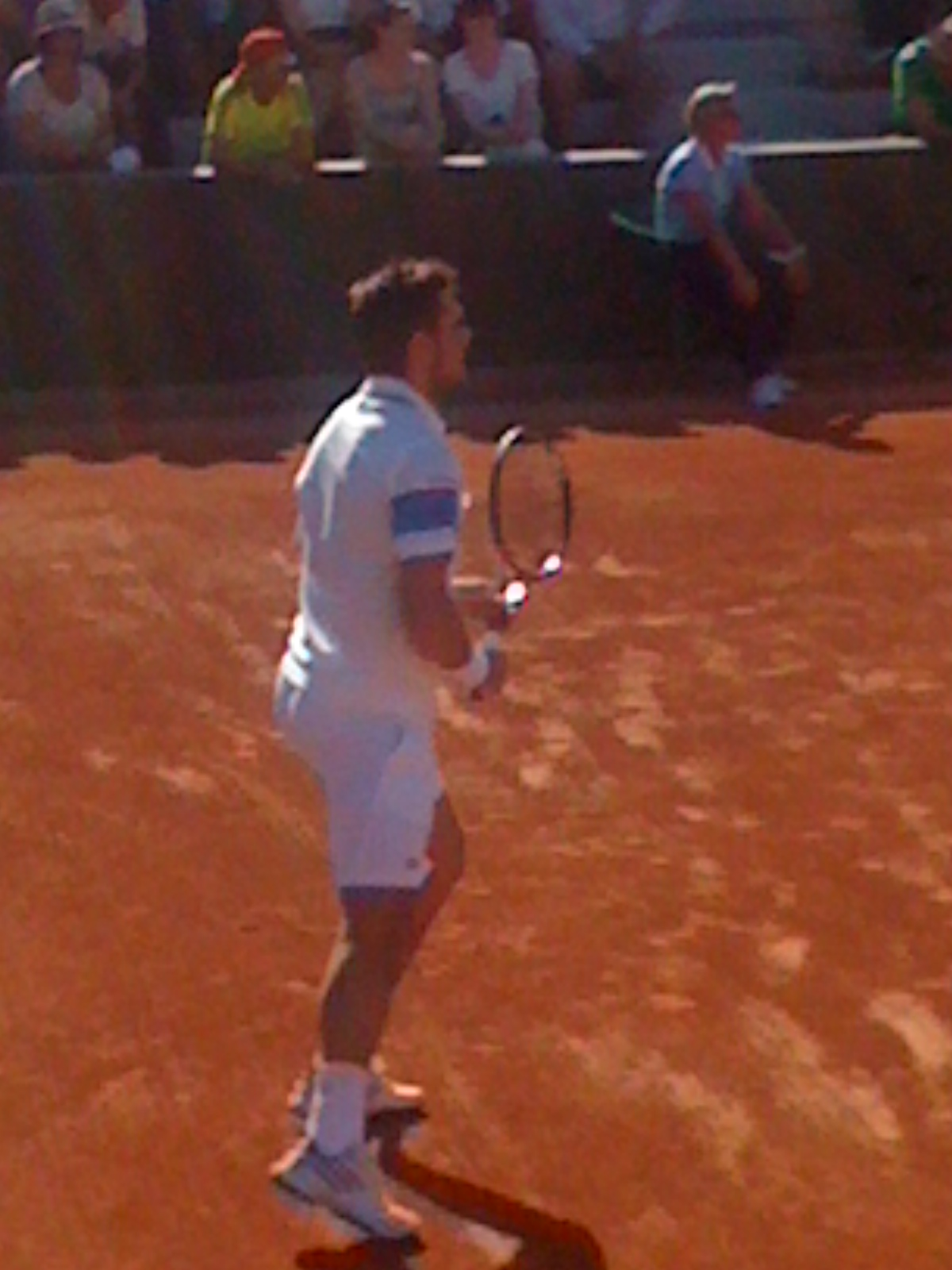 The Swiss player Stanislas Wawrinka at the 2011 French Open; he won his match against Thomas Schoorel in 3 sets on Court n°2; Wednesday 25 May 2011.